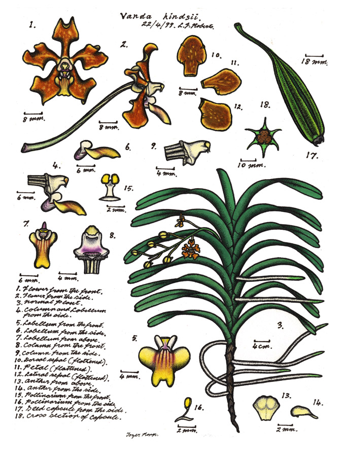 This image is one of a series by Lewis Roberts